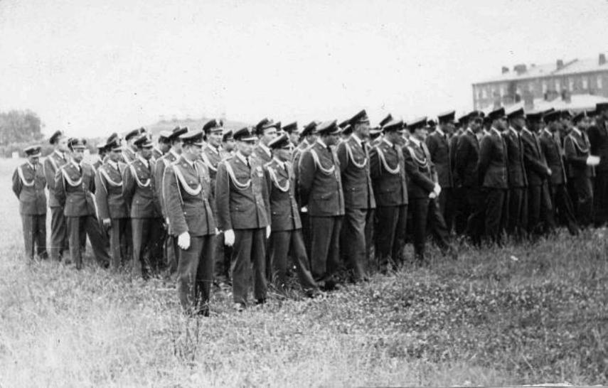 Kadra 64.LPS podczas uroczystej zbiórki z okazji Święta Lotnictwa, 23.08.1963